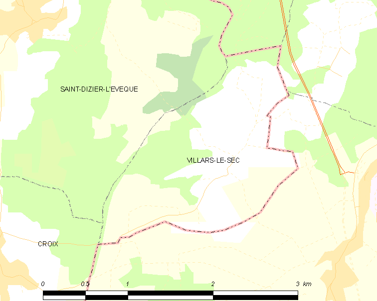 Map of French municipality Villars-le-Sec